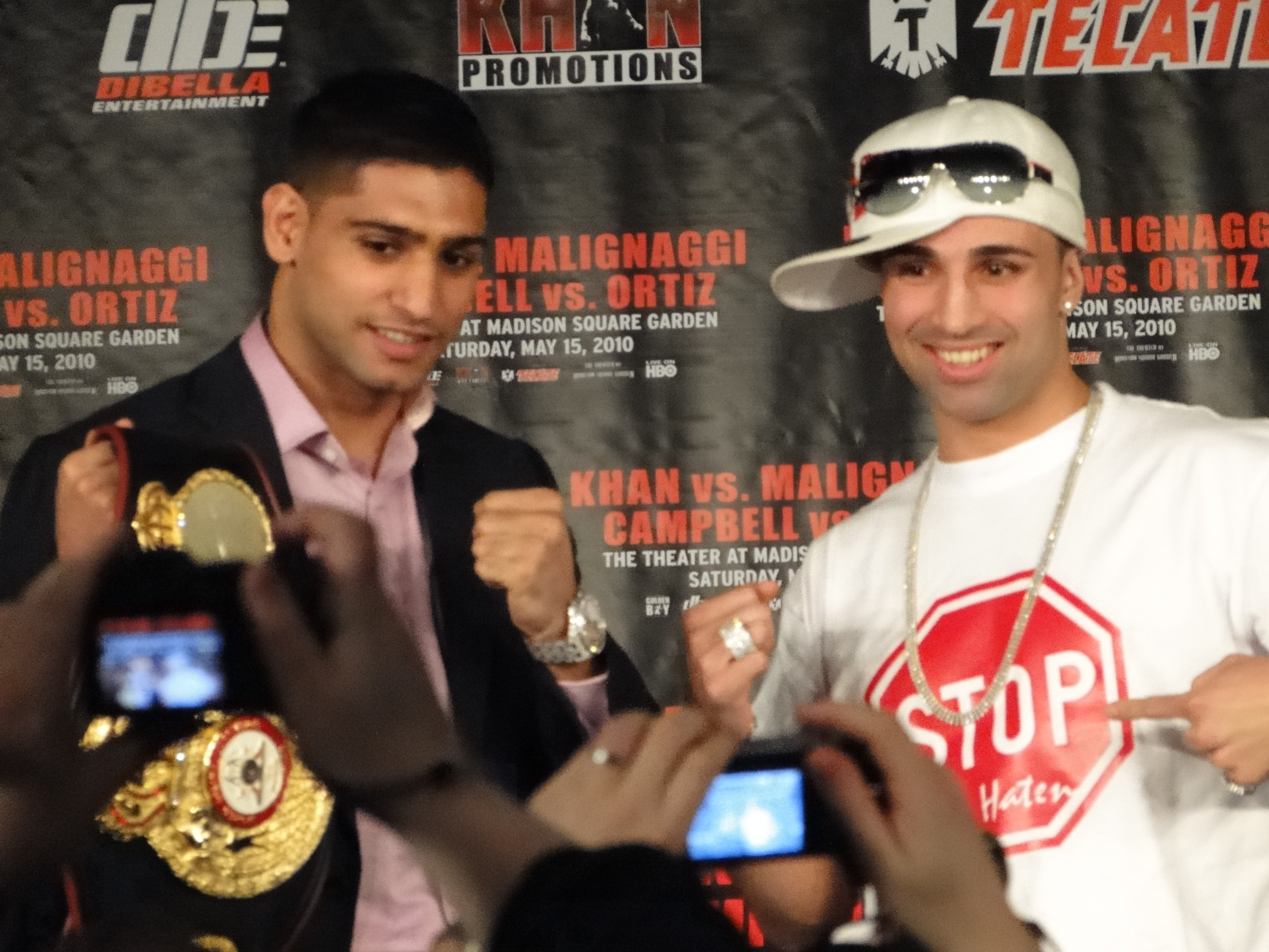 Amir Khan (left) and Paul Malignaggi on March 17, 2010.